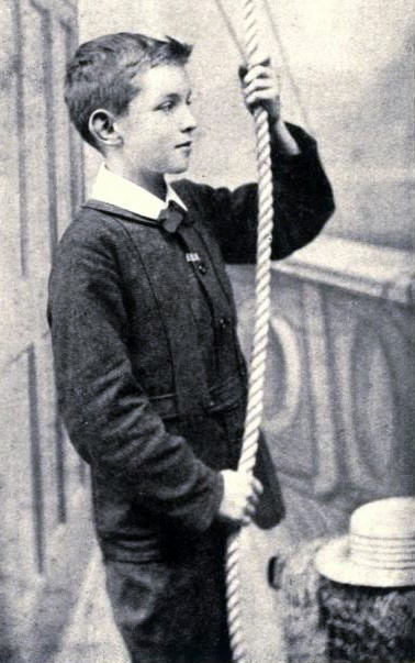 Ernest Henry Shackleton, aged 11.